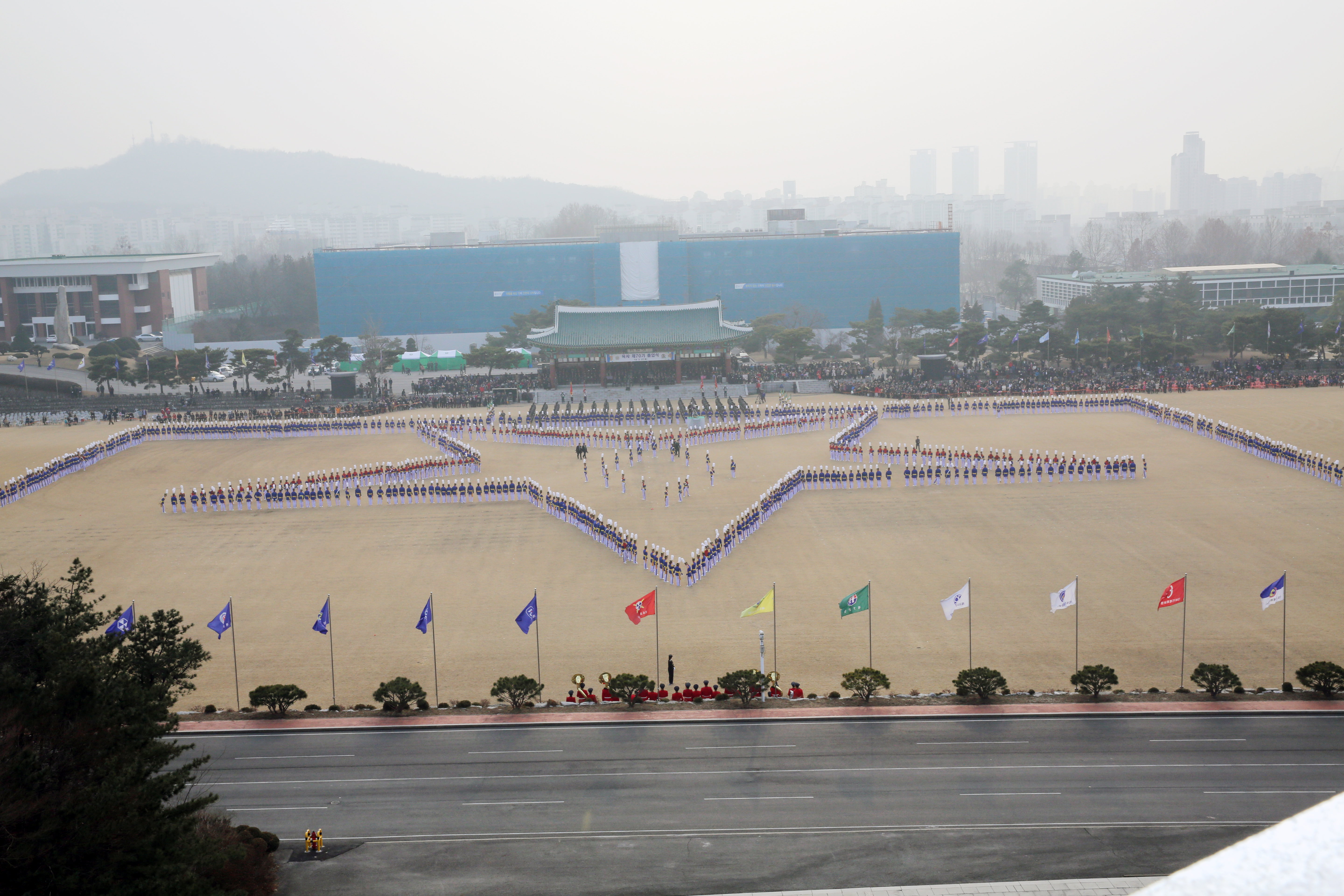 14년 2월 27일 실시된 육군사관학교 졸업식(Graduation Ceremony_Korea Military Academy)